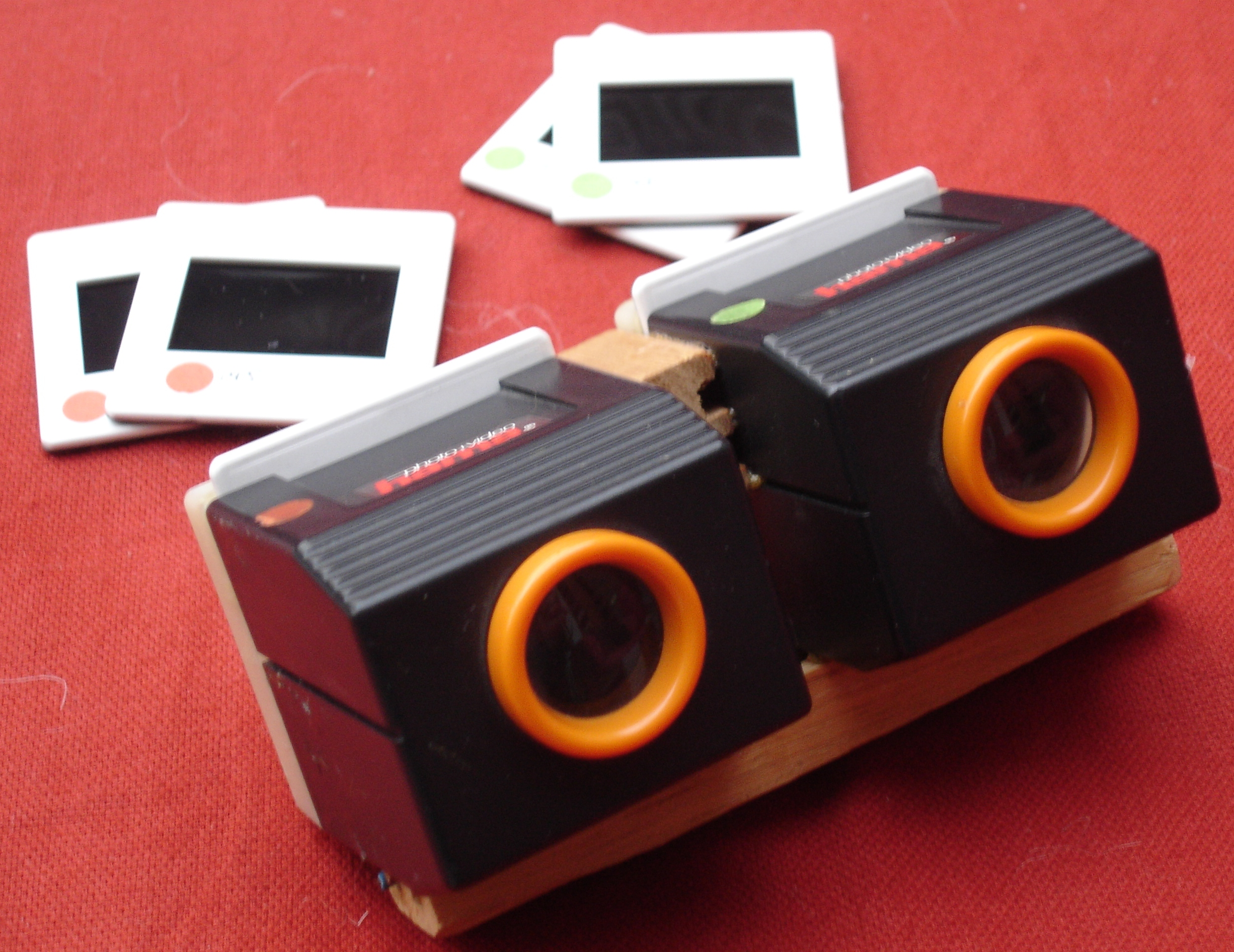 Simple stereoscope, made with two cheap slide viewers glued to a wooden block. Since the two viewers and slide windows are identical, the separation of the points of infinity is actually too large.